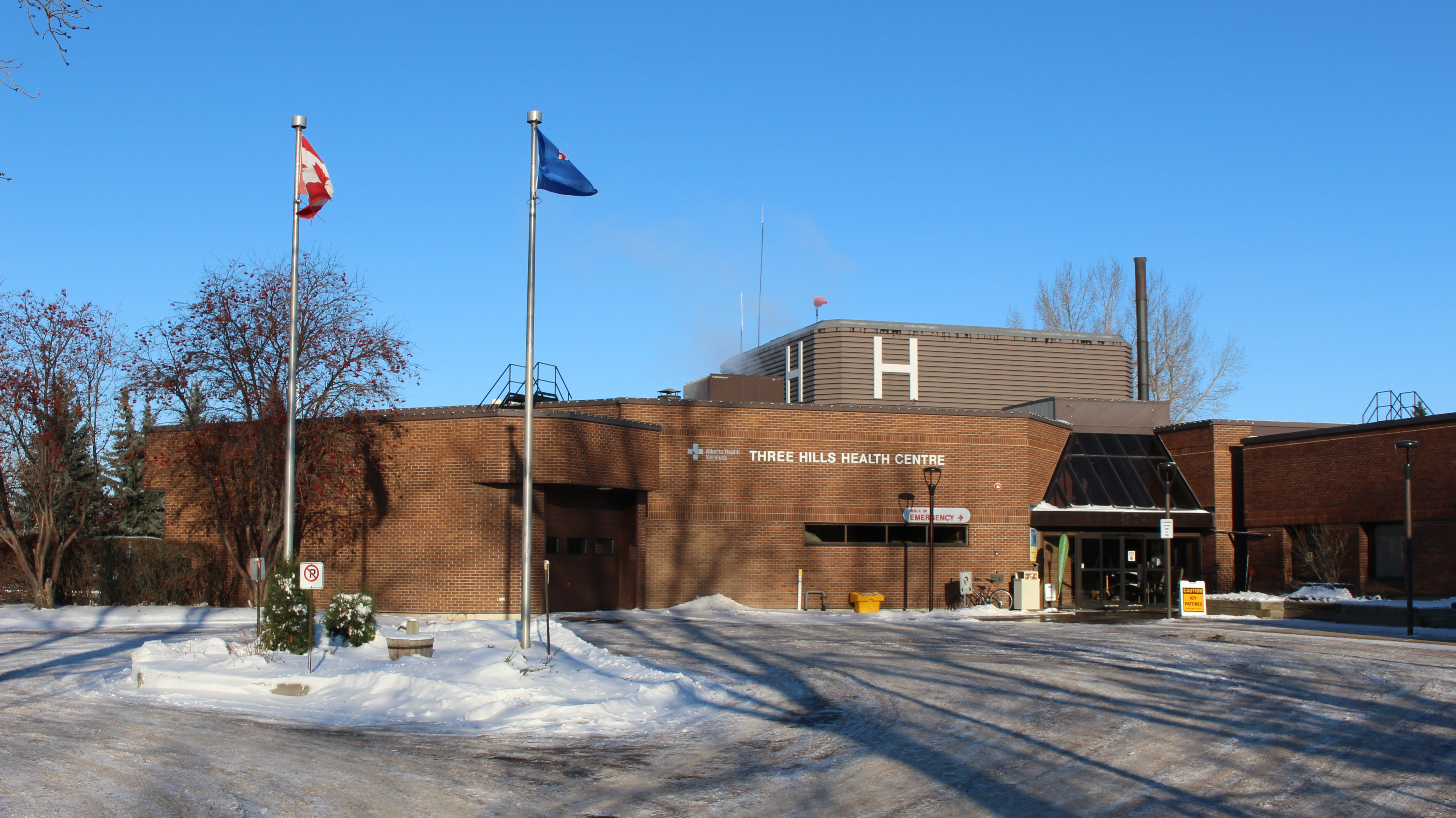 Photos of the Town of Three Hills, and the surrounding rural municipality of Kneehill County. Taken 2012-2014 by RPAP and Jonathan Koch.